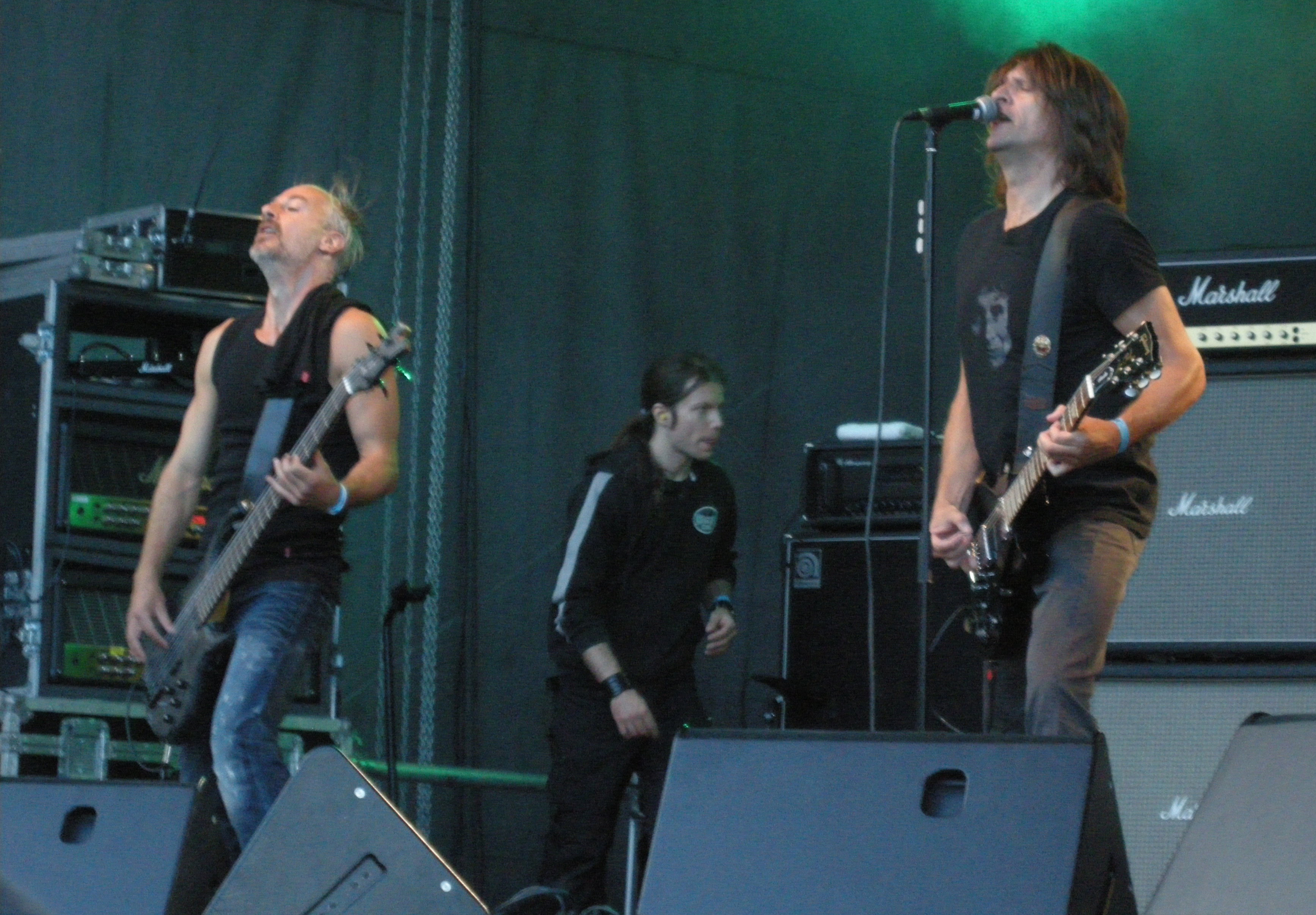 American heavy metal band Kingdom Come at Skogsröjet 2012